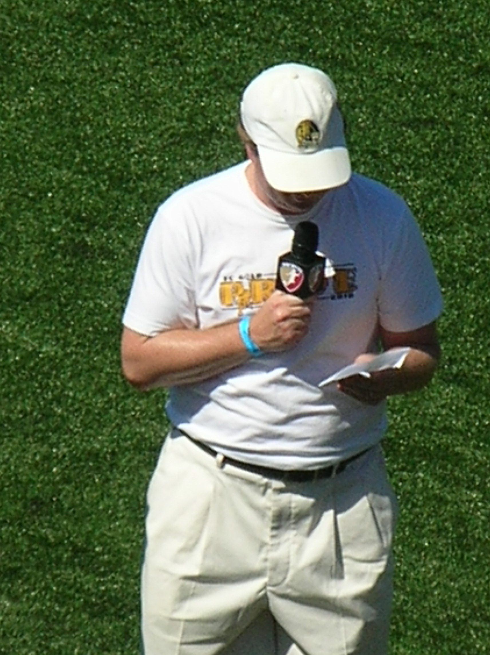 FC Gold Pride owner Brian NeSmith speaking at halftime as part of a ceremony recognizing WPS commissioner Tonya Antonucci during the 2010 WPS Championship game between the Gold Pride and the Philadelphia Independence.